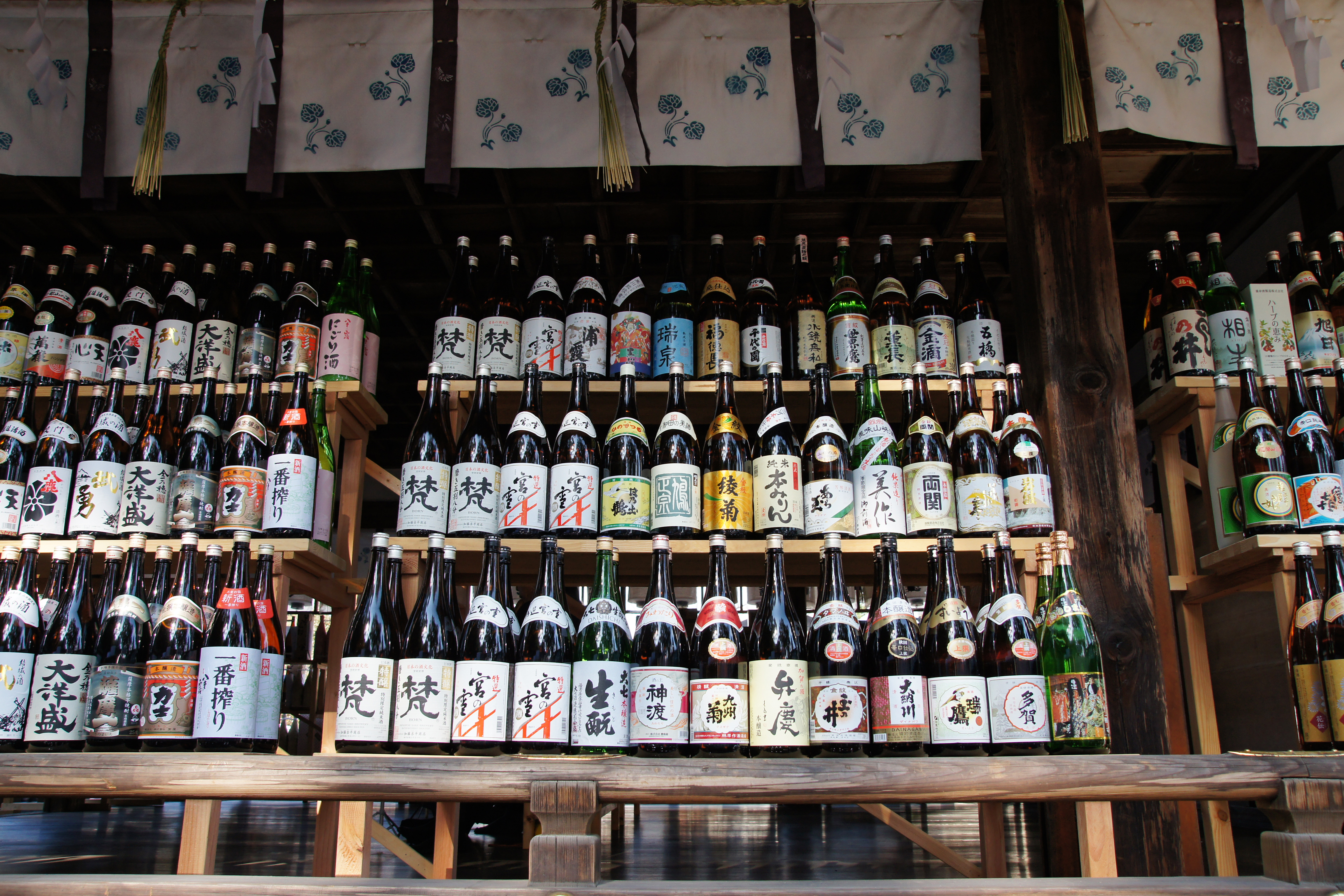 Matsunoo-taisha in Kyoto, Kyoto prefecture, Japan.